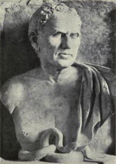 Sculpture of Pater Familias (Q. Haterius) of tomb of Haterii.